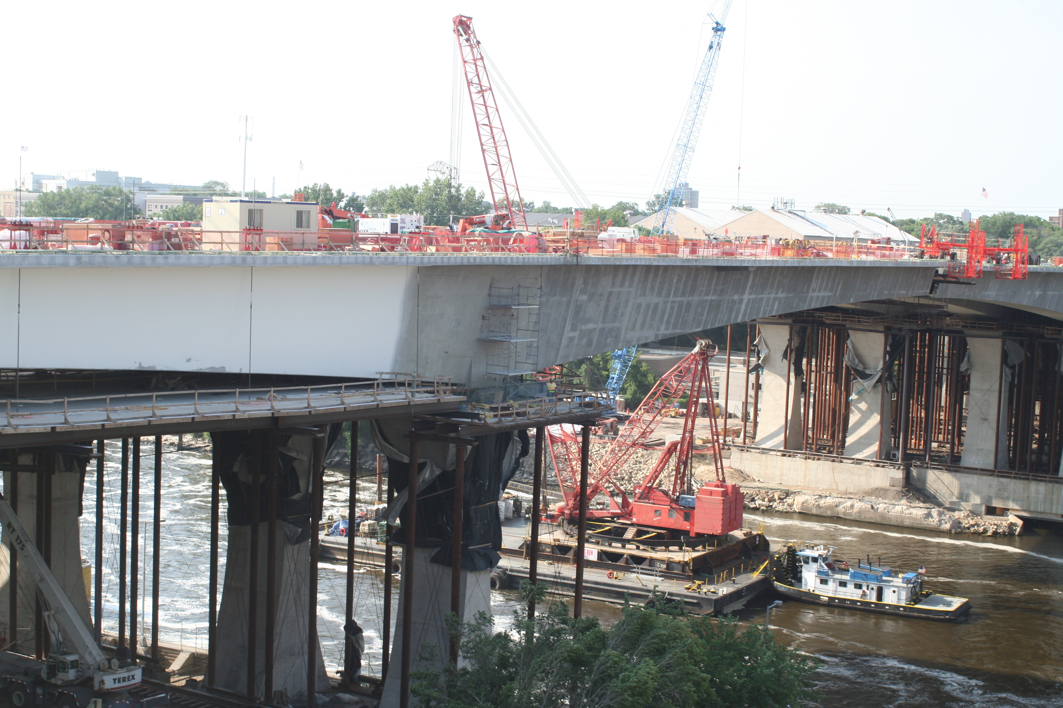 Final sections of northbound lanes of St. Anthony Falls (35W) Bridge were put in place July 5, 2008. The seven foot gap will be closed by poured concrete. View is approximately to the north. The crane, named "Big Ben", is a Manitowoc 4600 Series 3 barge mounted ring crane. The tugboat on duty was the Katie Ann, Chicago, Illinois; the Mary Ann left several minutes earlier. The white area is a plastered painted coating which will cover the completed bridge.